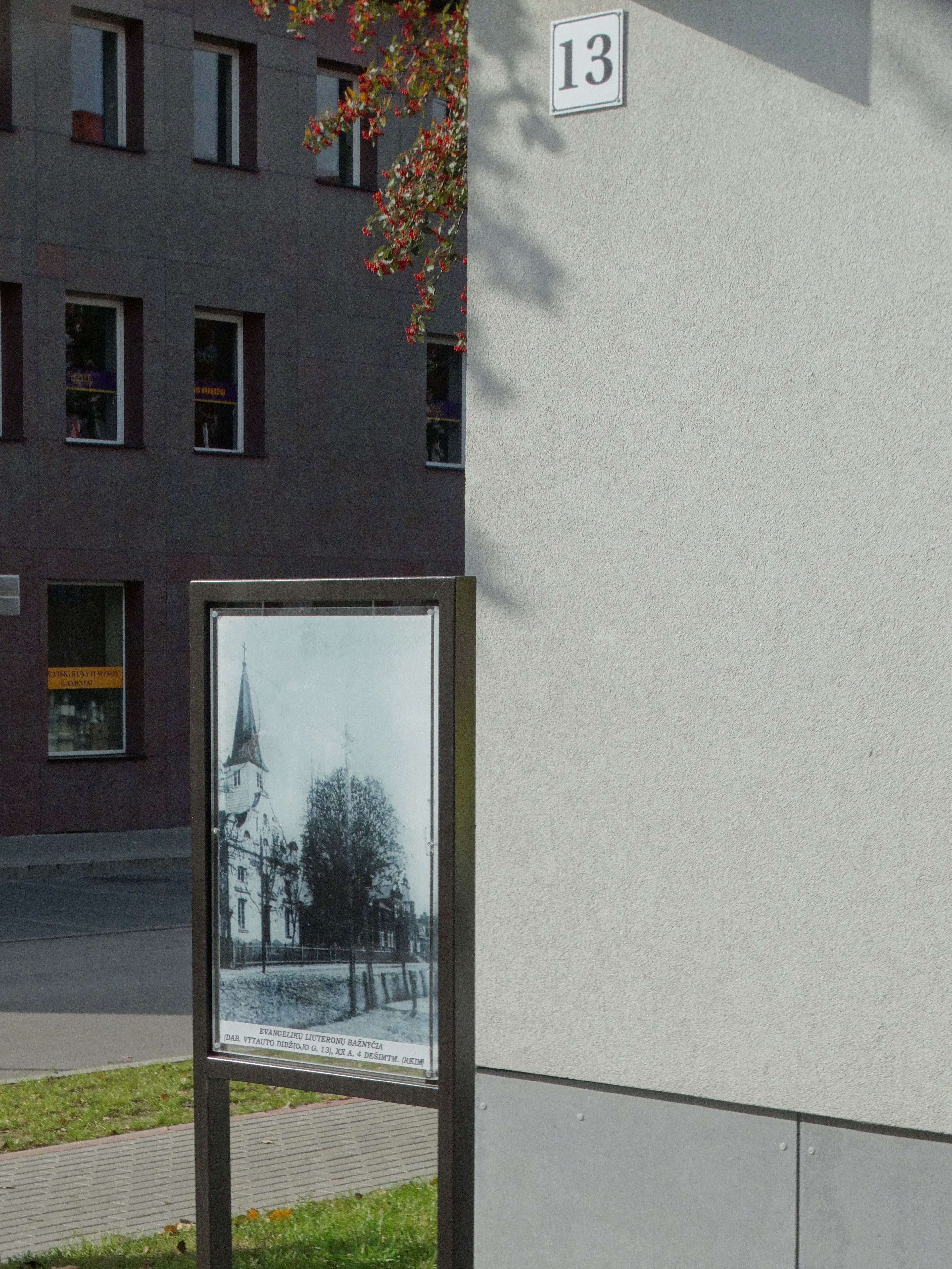 Street photo at the site of the former church, Raseiniai, Lithuania